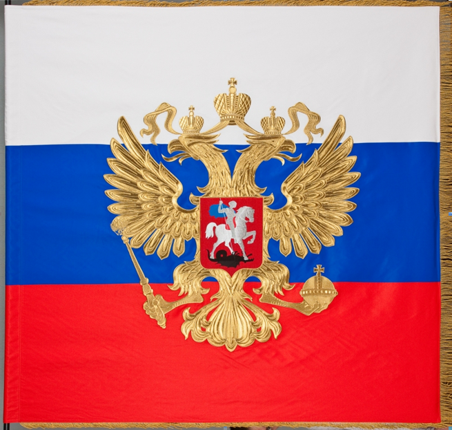 Standard of the President of the Russian Federation